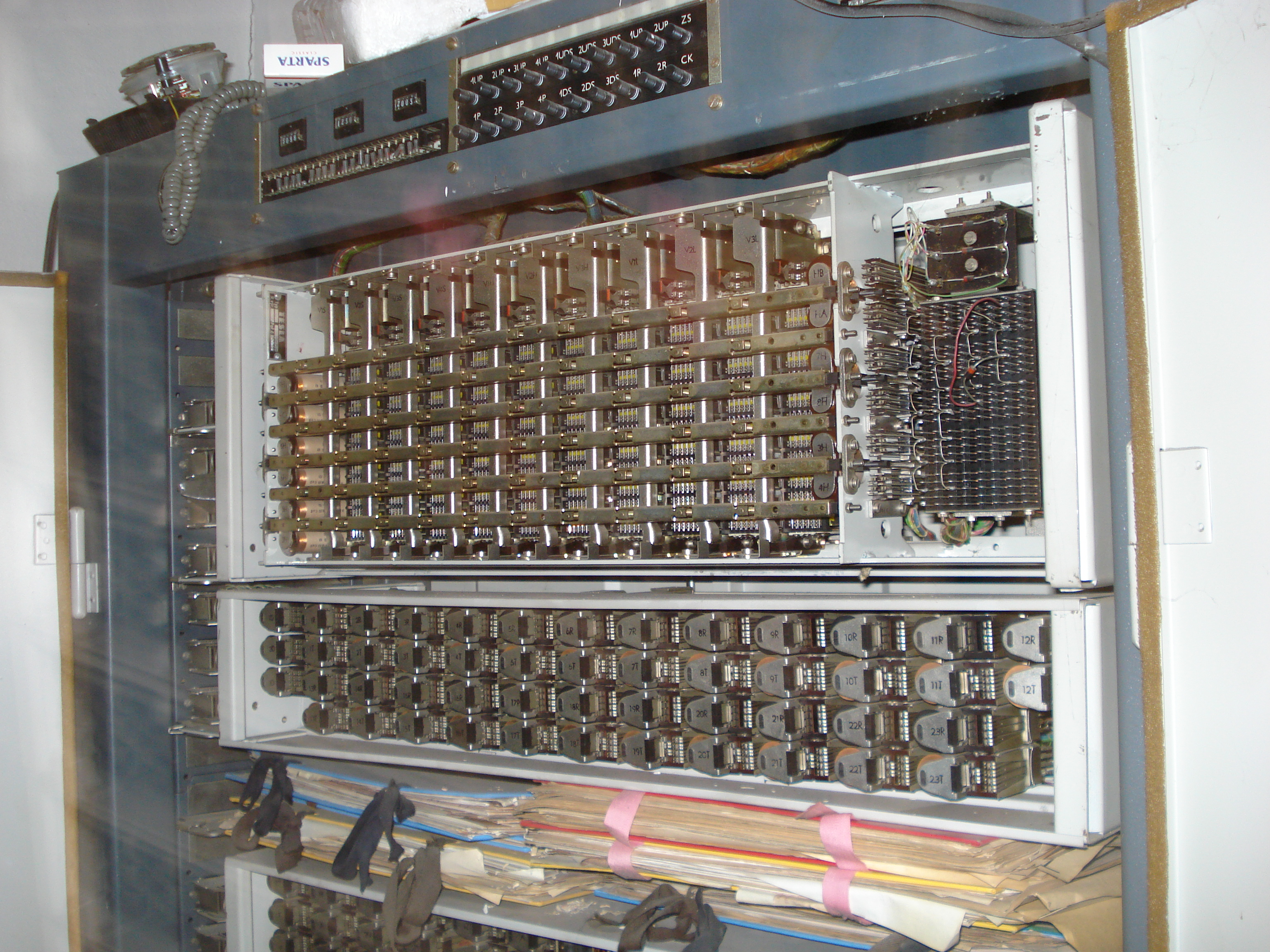 Top end of an early 1970's TESLA crossbar telephone exchange produced in Czechoslovakia